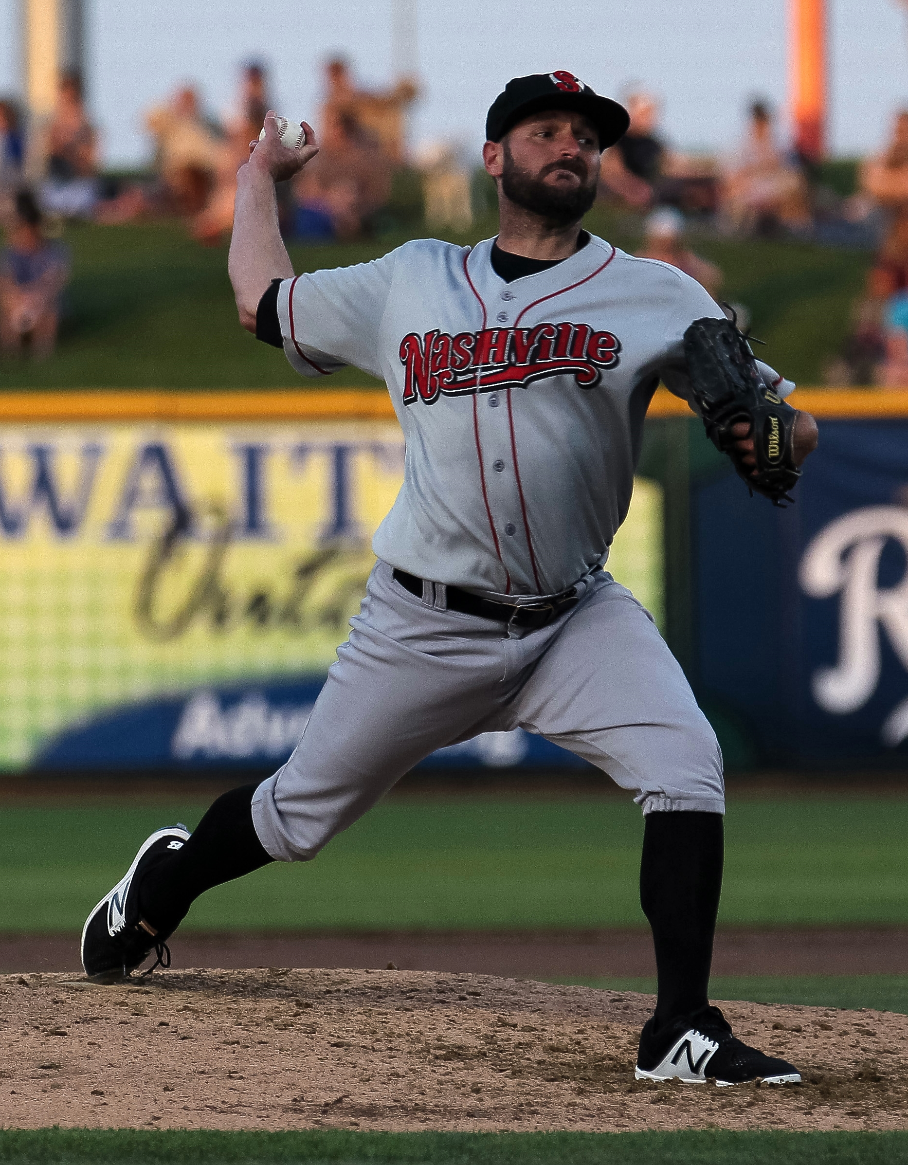 Chris Smith in the midst of pitching a combined no-hitter for the Nashville Sounds on June 7, 2017; by Minda Haas Kuhlmann USAGE INSTRUCTIONS: You are welcome to share or publish to your own site or social media account, but you MUST credit me, Minda Haas Kuhlmann, or by my Twitter handle (@minda33) or Instagram (minda.haas).